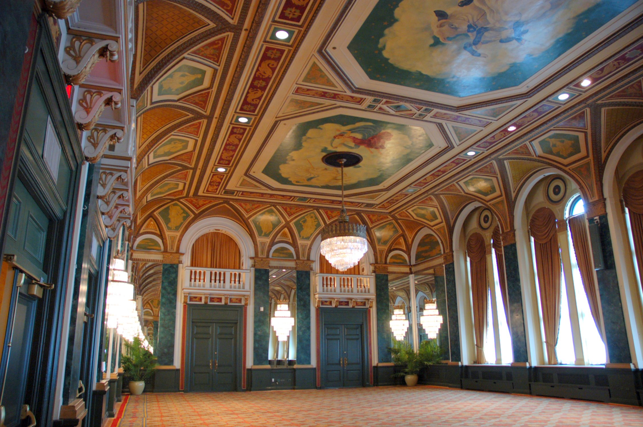 Ballroom, The Fairmount Royal York Hotel Toronto Canada